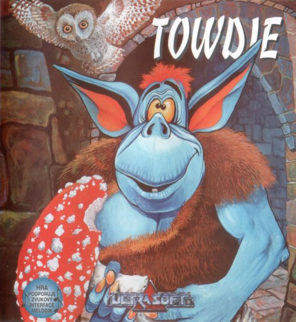 Digital photo of the original cover art owned by me, Louis Wittek of Ultrasoft (cropped in Photoshop)